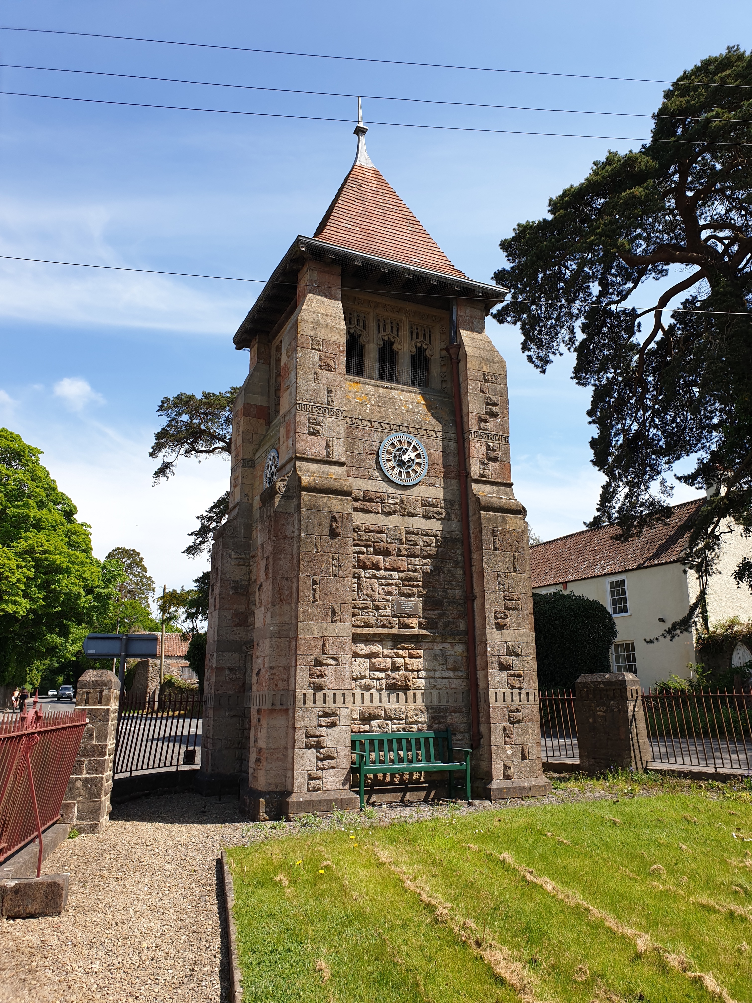 Grade II-listed Jubilee clock tower, built in 1897 to mark Queen Victoria’s Diamond Jubilee. Clock Tower, Walls and Railings. Dated 20 June 1897 (on inscription) and restored in 1977.